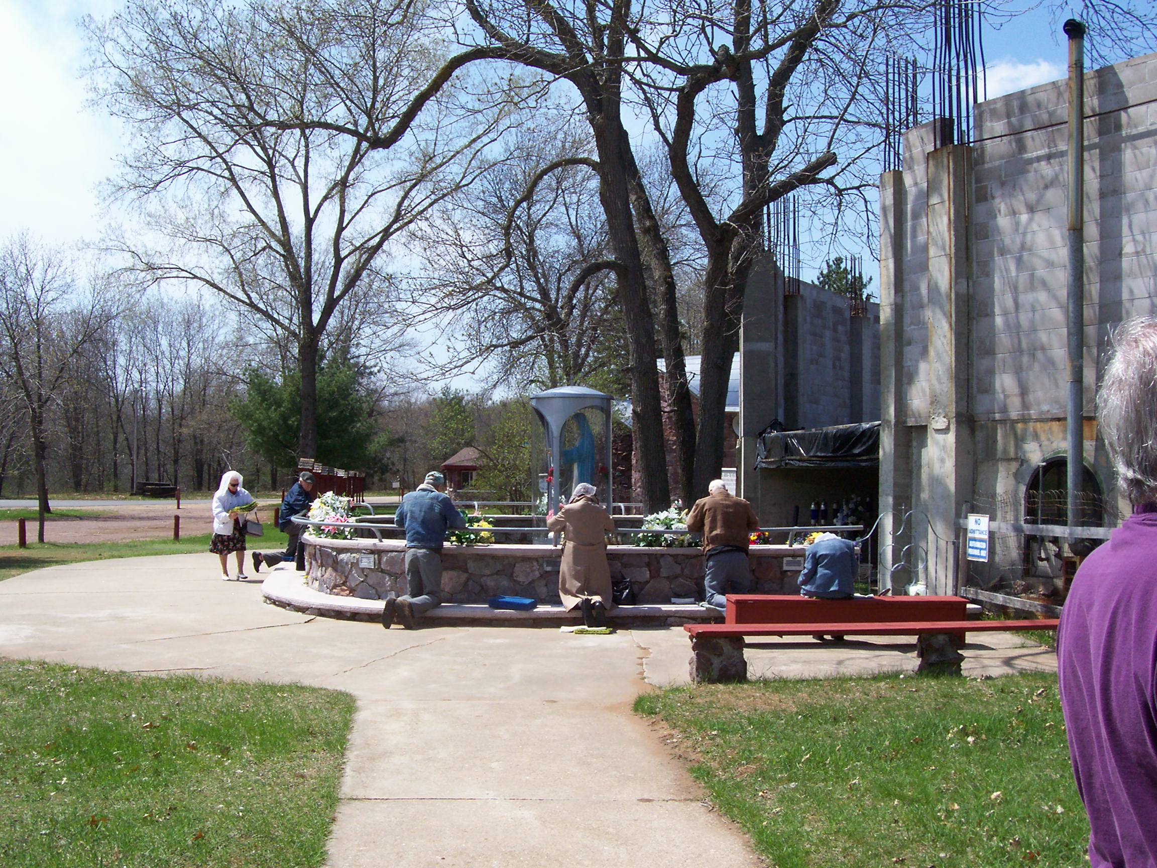 People praying at the Necedah Shrine east of Necedah, Wisconsin, USA.